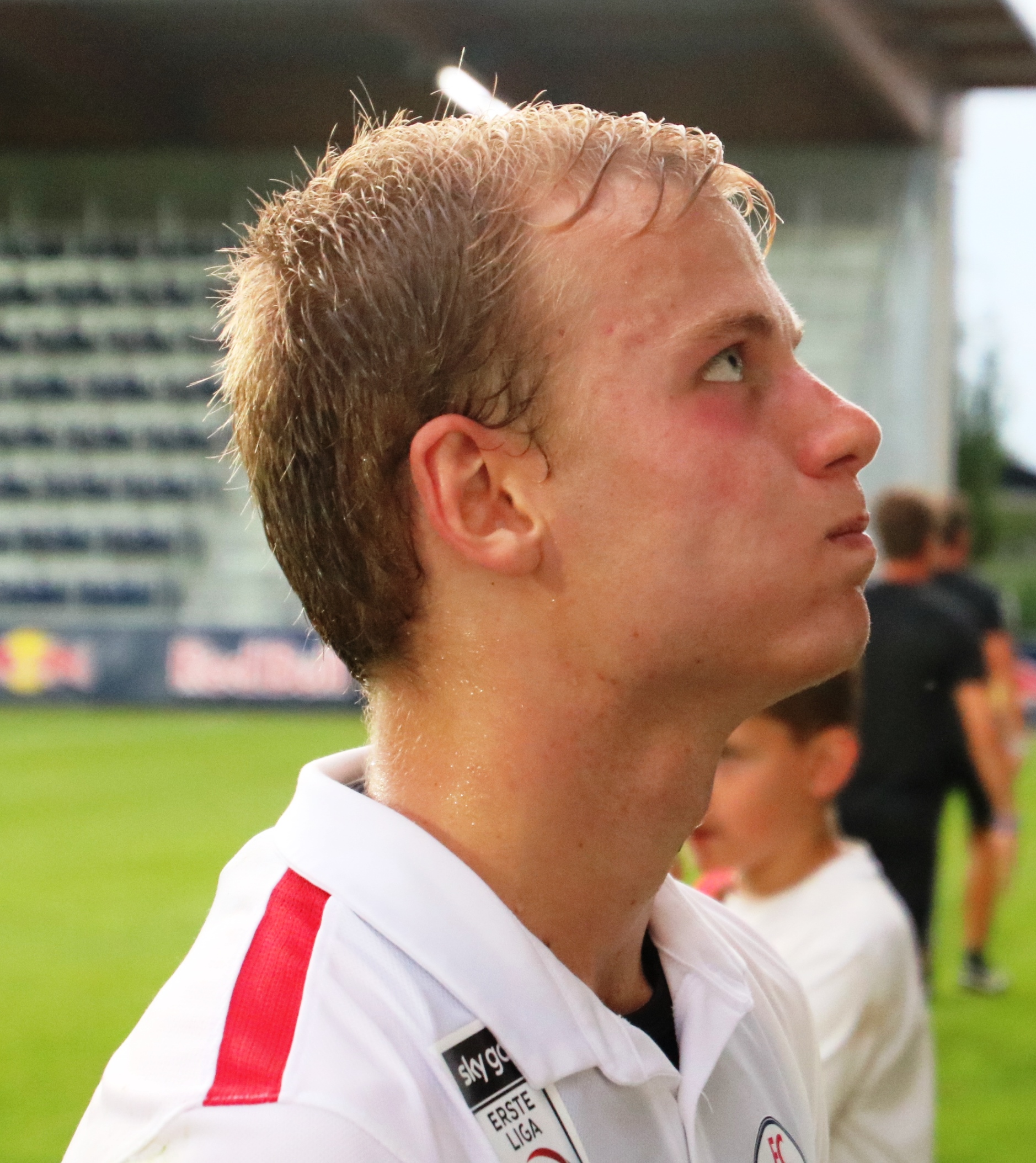 league match Austria 2nd league